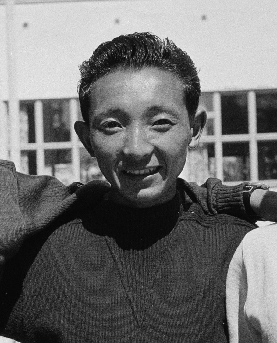 Keizo Yamada in 1952.